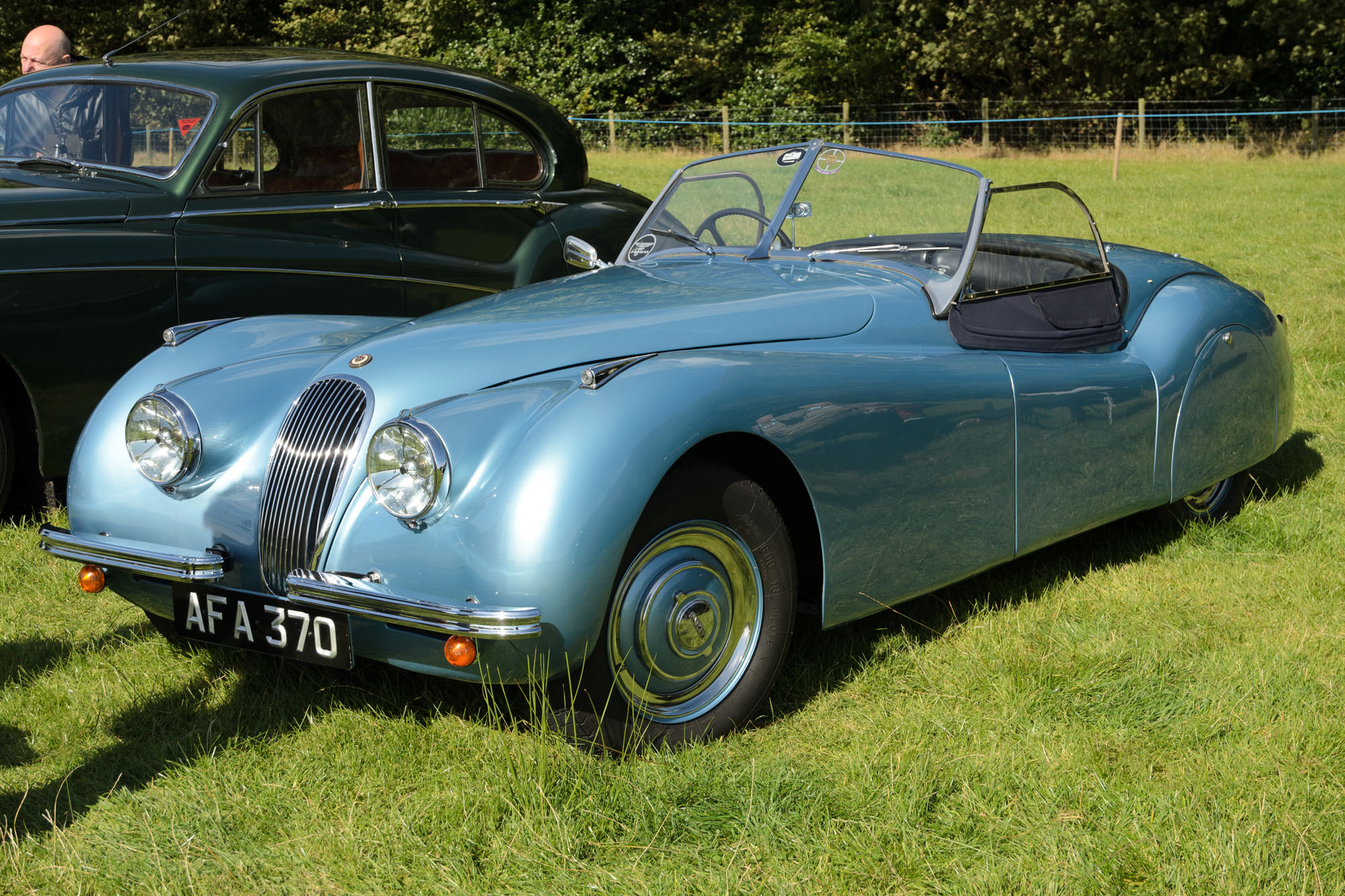 1951 Jaguar XK120 open two-seaterAFA370 (DVLA) first registered 23 February 1951 3442 ccHoghton Tower Classic Car Show 13/09/2015